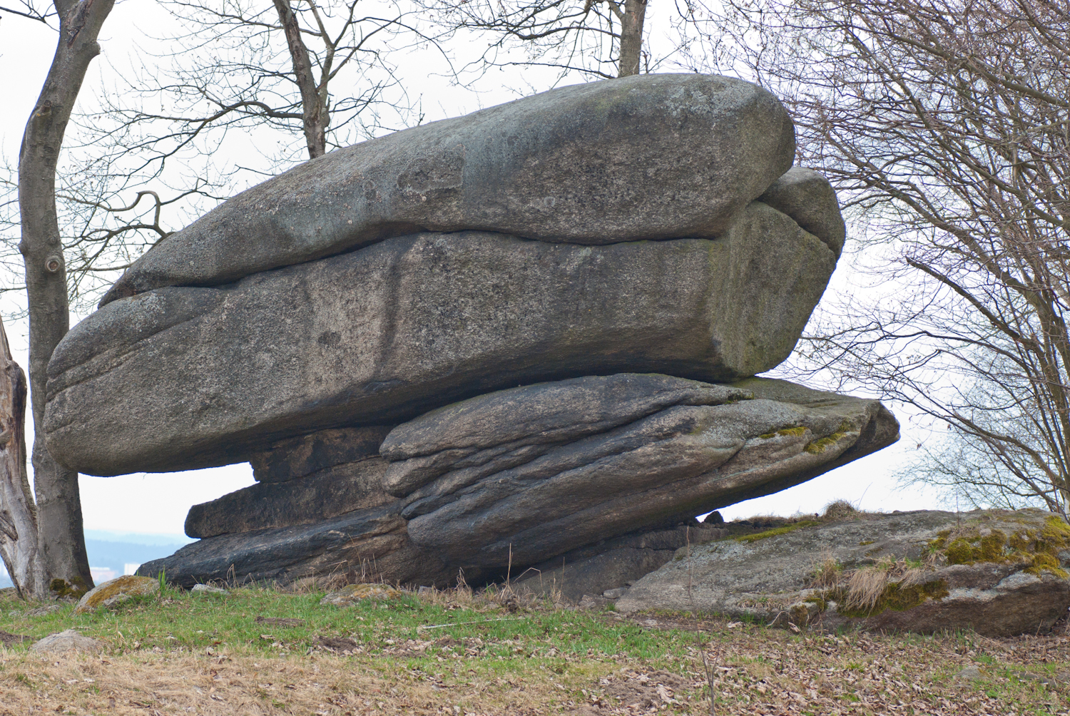 Natural monument Kamenný hřib in Šindelová, Sokolov District, Czech Republic